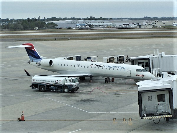 Comair (Delta Connection) Bombardier CRJ-700 at Sarasota-Bradenton International Airport taken by me.